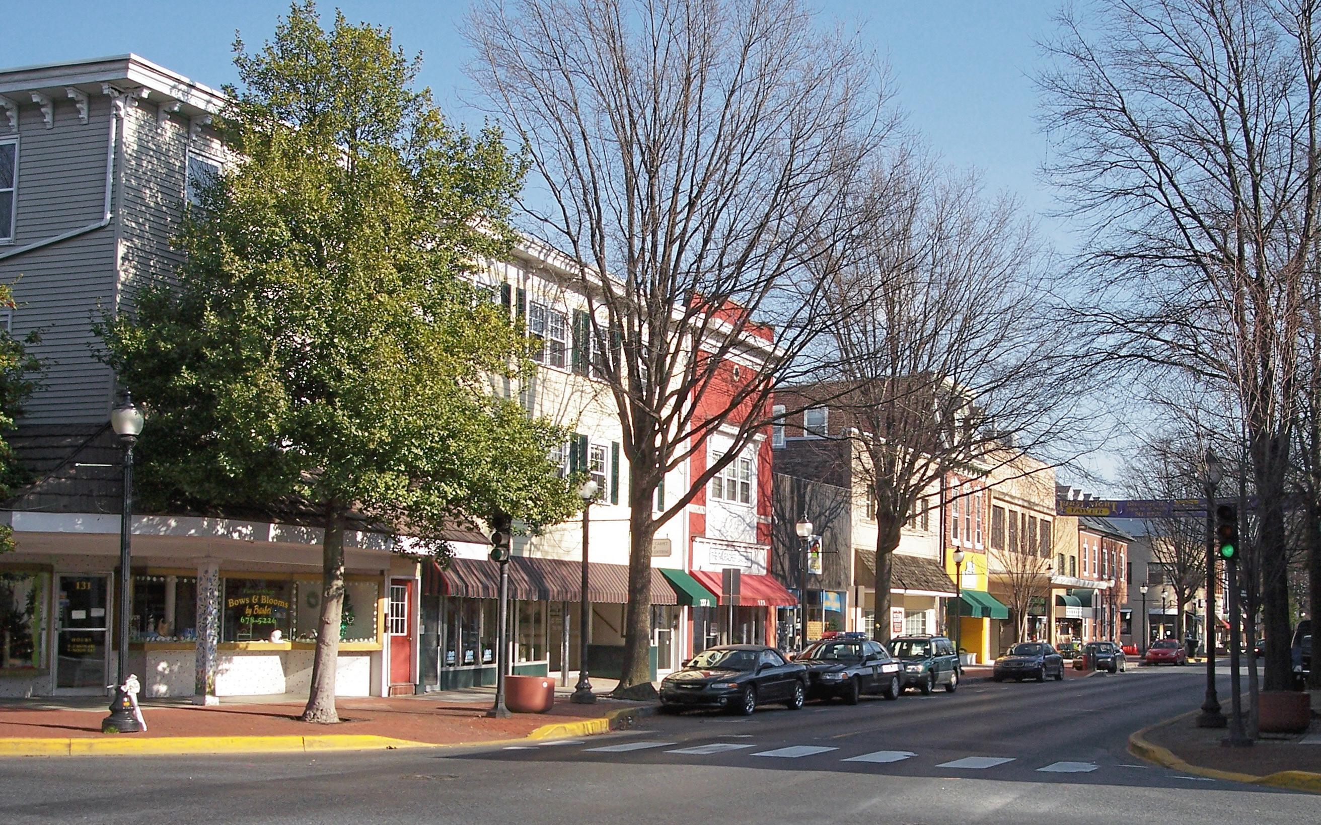 West Loockerman Street in downtown Dover, Delaware